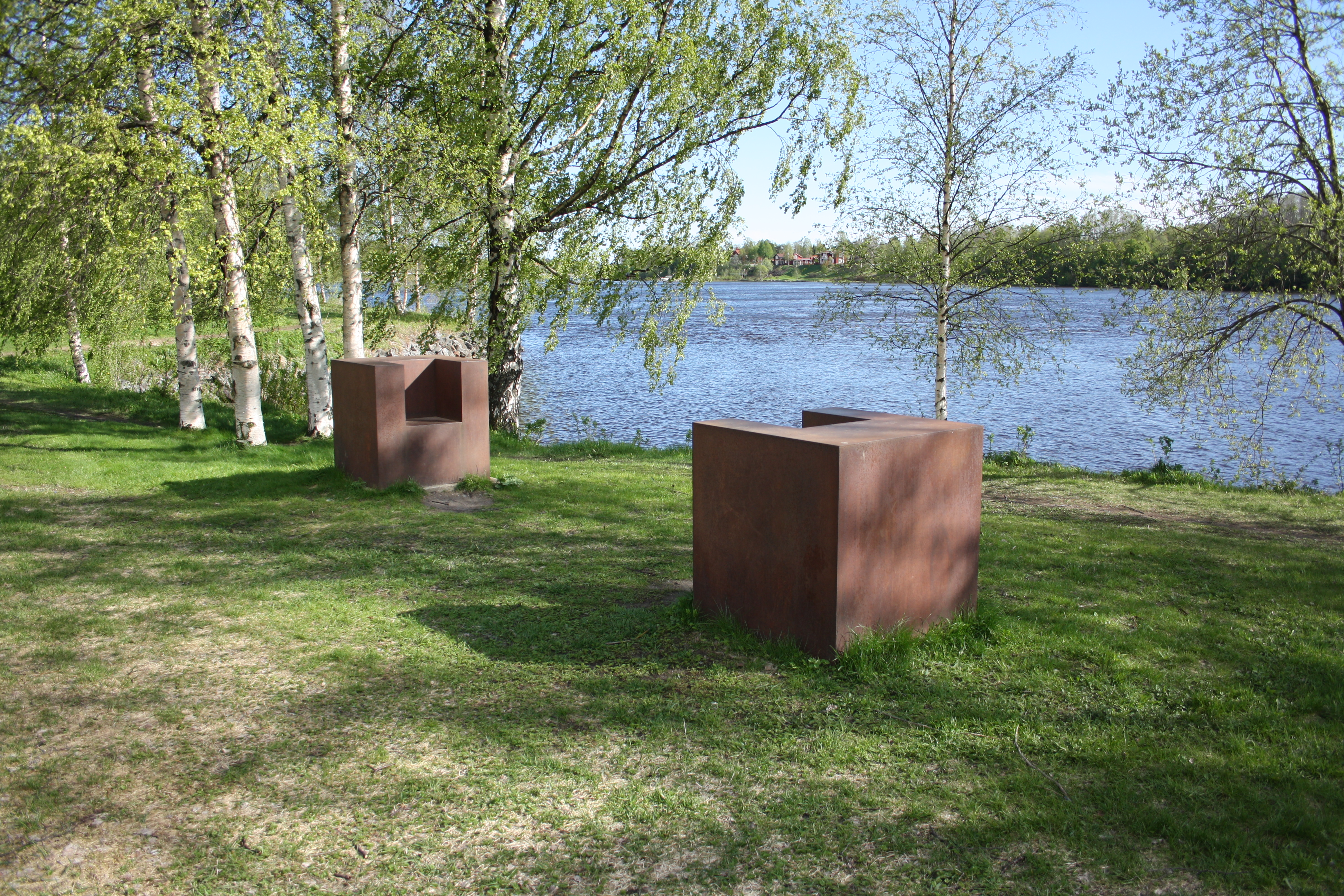 "2 x 3² Cube" by Cristos Gianakos, Öbacka strand, Umeå